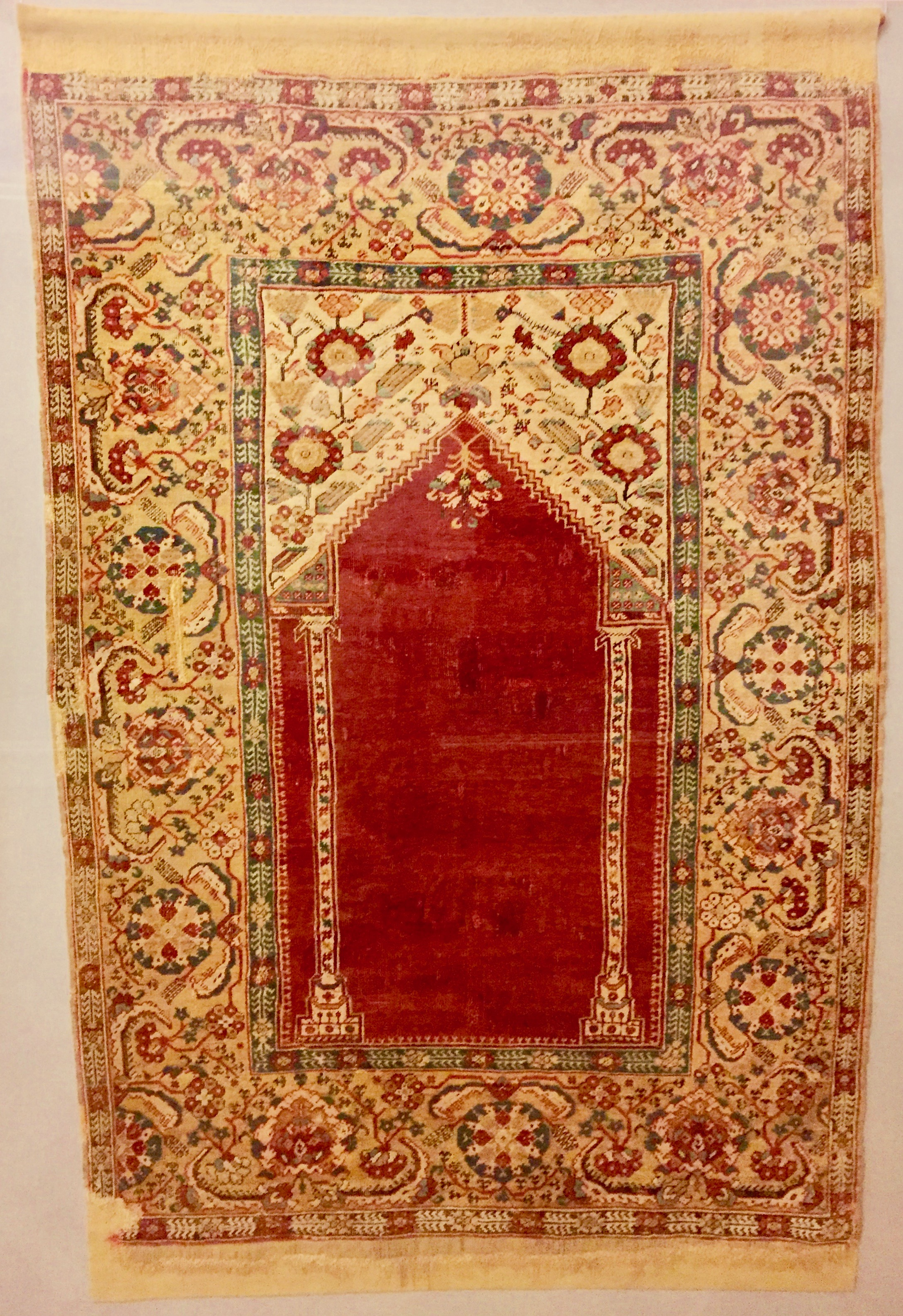 Anatolian rugs from the Early Modern period have survived in Transylvanian churches. Hence they are known as "Transylvanian rugs". Single niche rug with two columns. Brukenthal Museum, Sibiu, Romania.